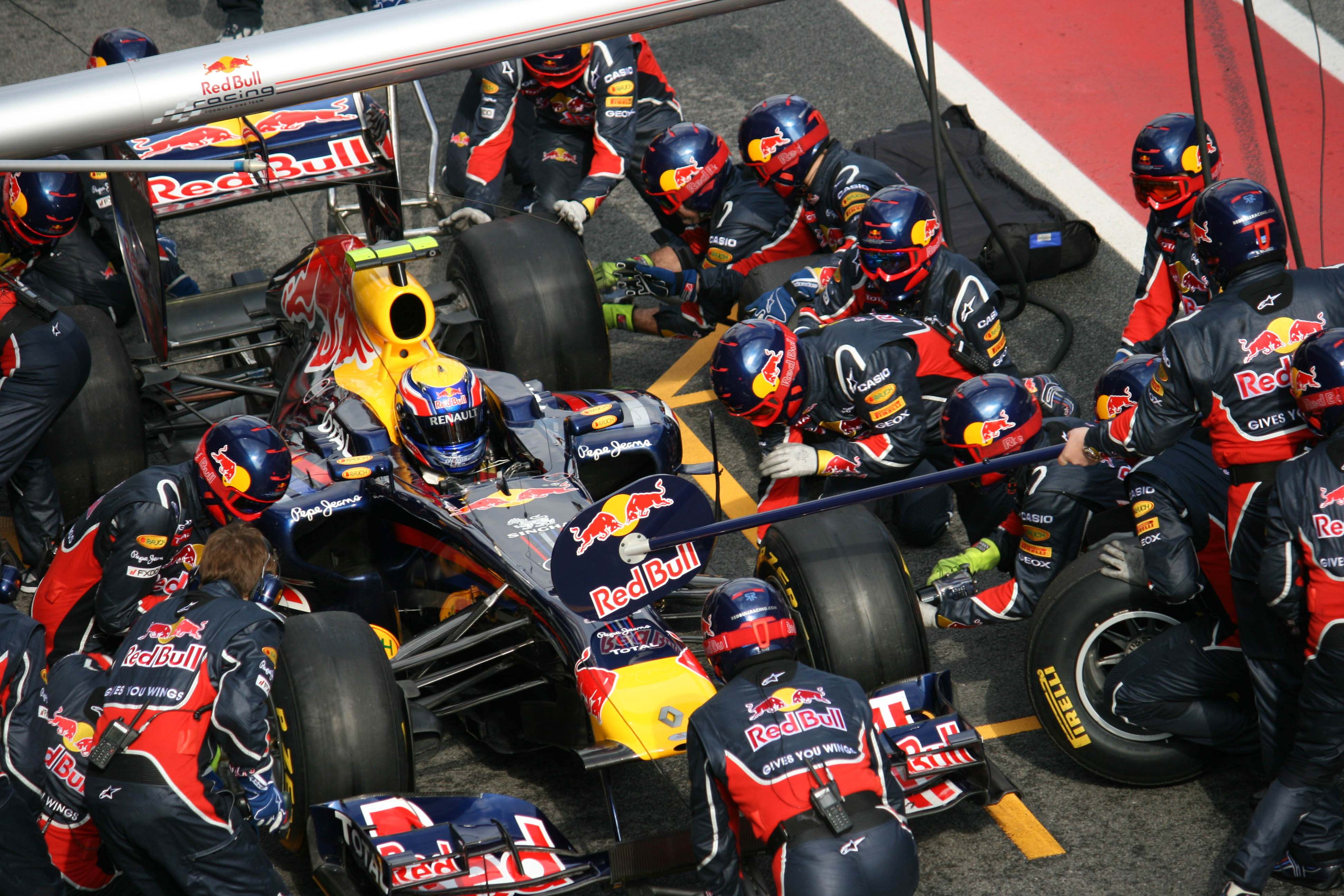 Red Bull pit stop